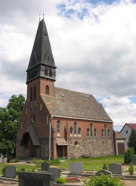 Church in the village Trebitz, an incorporated part of the town Brück in Brandenburg, Germany.